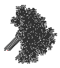 The turmite specified as {1, 2, 1}, {0, 2, 1 , 1, 1, 0}, {1, 1, 1 } shown at 27731 timesteps. This string is a curly-bracketed table of n_states rows and n_colors columns, where each entry is a triple of integers. The elements of each triple are: a) new color of the square, b) direction(s) for the turmite to turn: 1=noturn, 2=right, 4=u-turn, 8=left, c) new internal state of the turmite. For example, the triple {1,2,1} says: a) set the color of the square to 1, b) turn right (2), c) adopt state 1 and move forward one square.